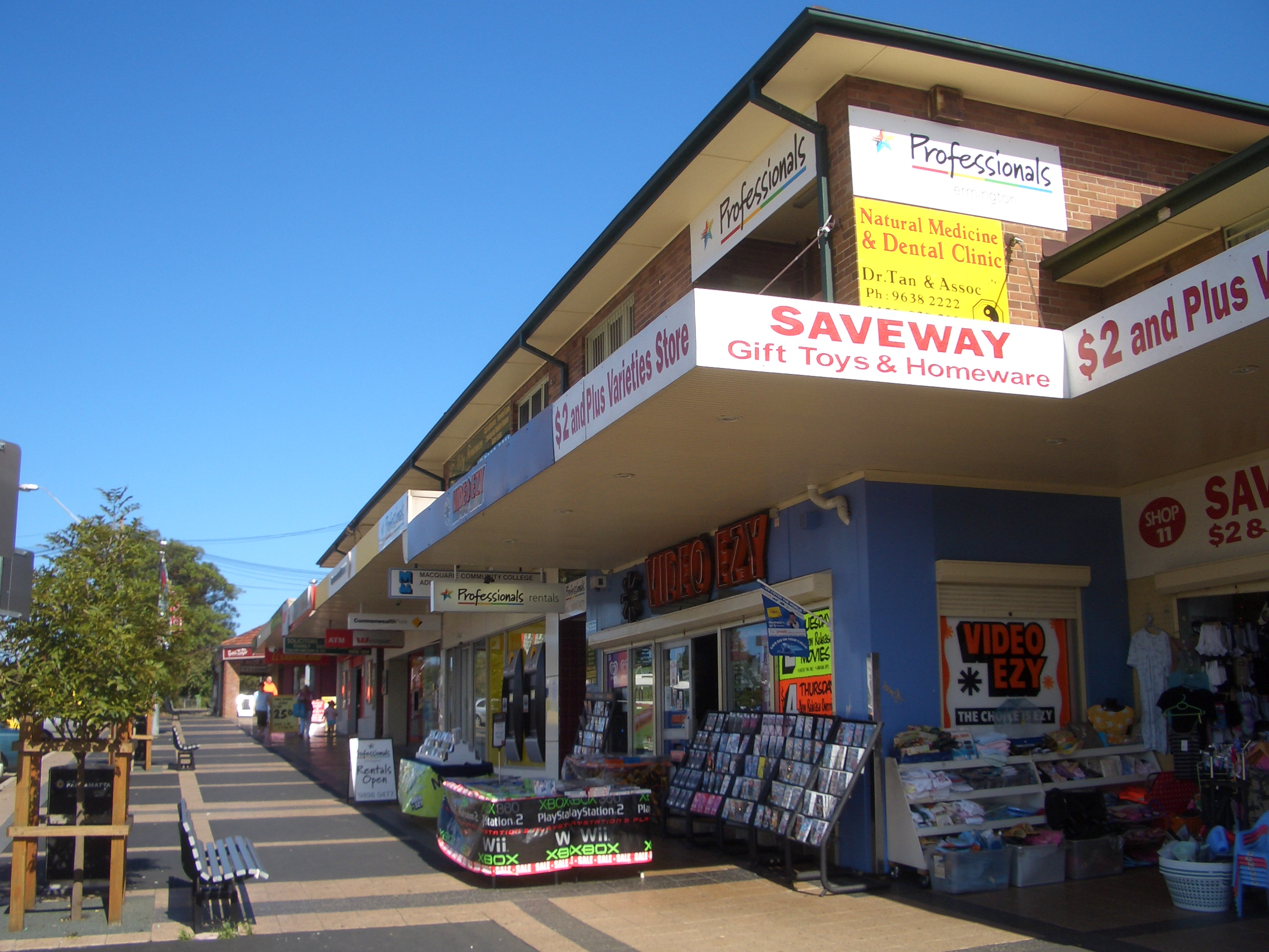 Ermington shops, Victoria Road